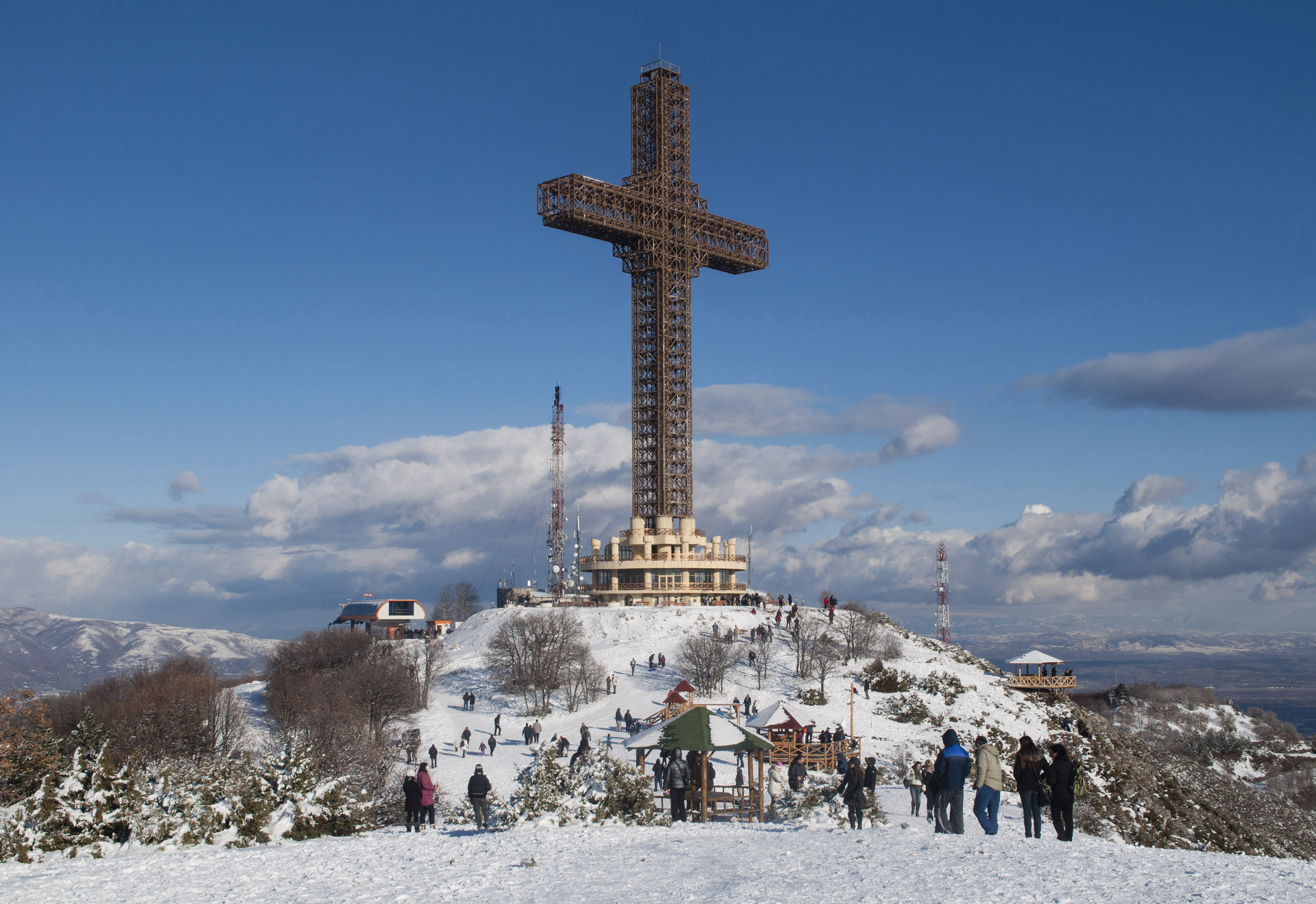 Millennium Cross on the peak Krstovar (1,066 m) of the Vodno Mountain, Macedonia